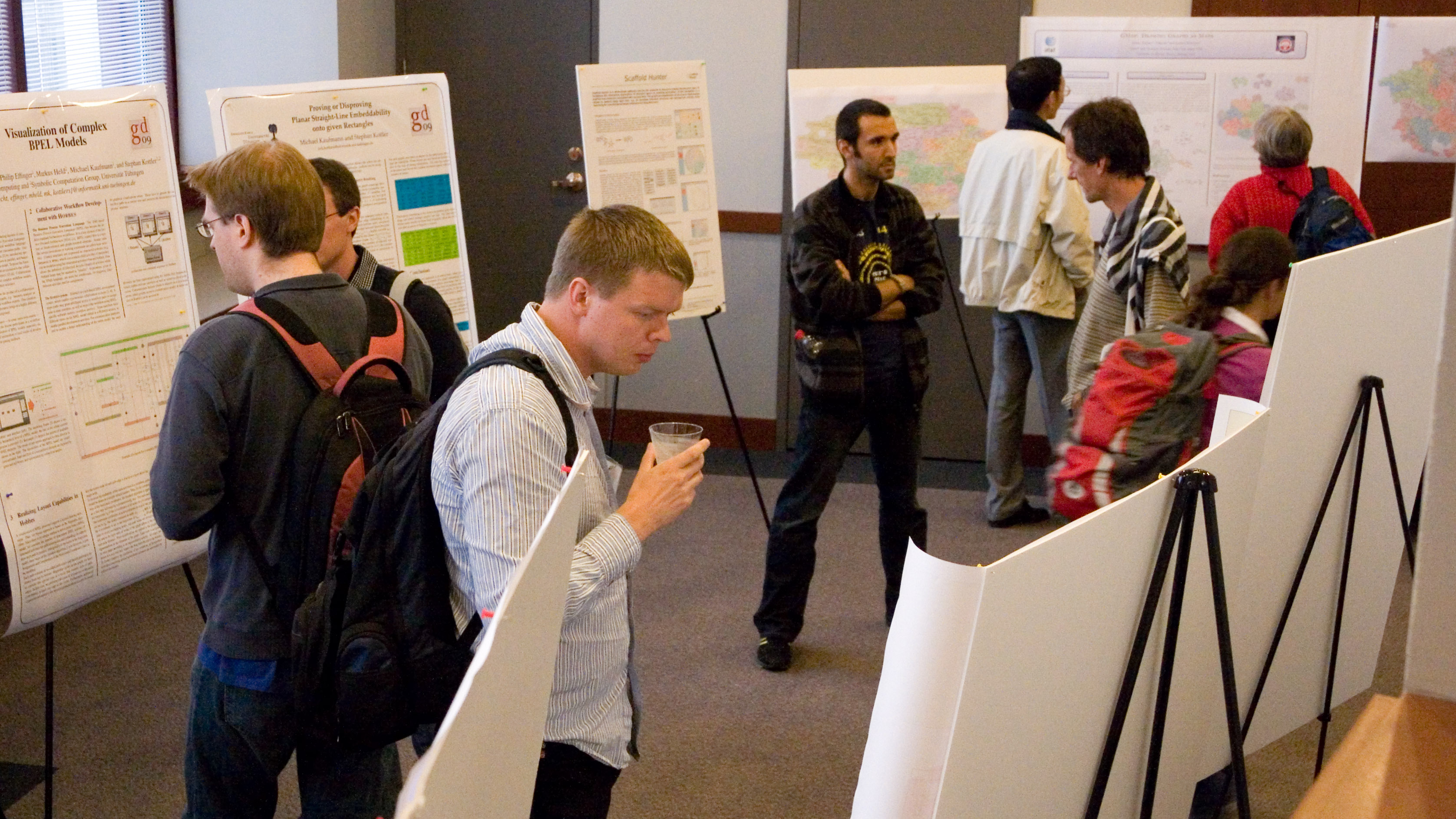 The poster session at the 17th International Symposium on Graph Drawing, Chicago, 2009.